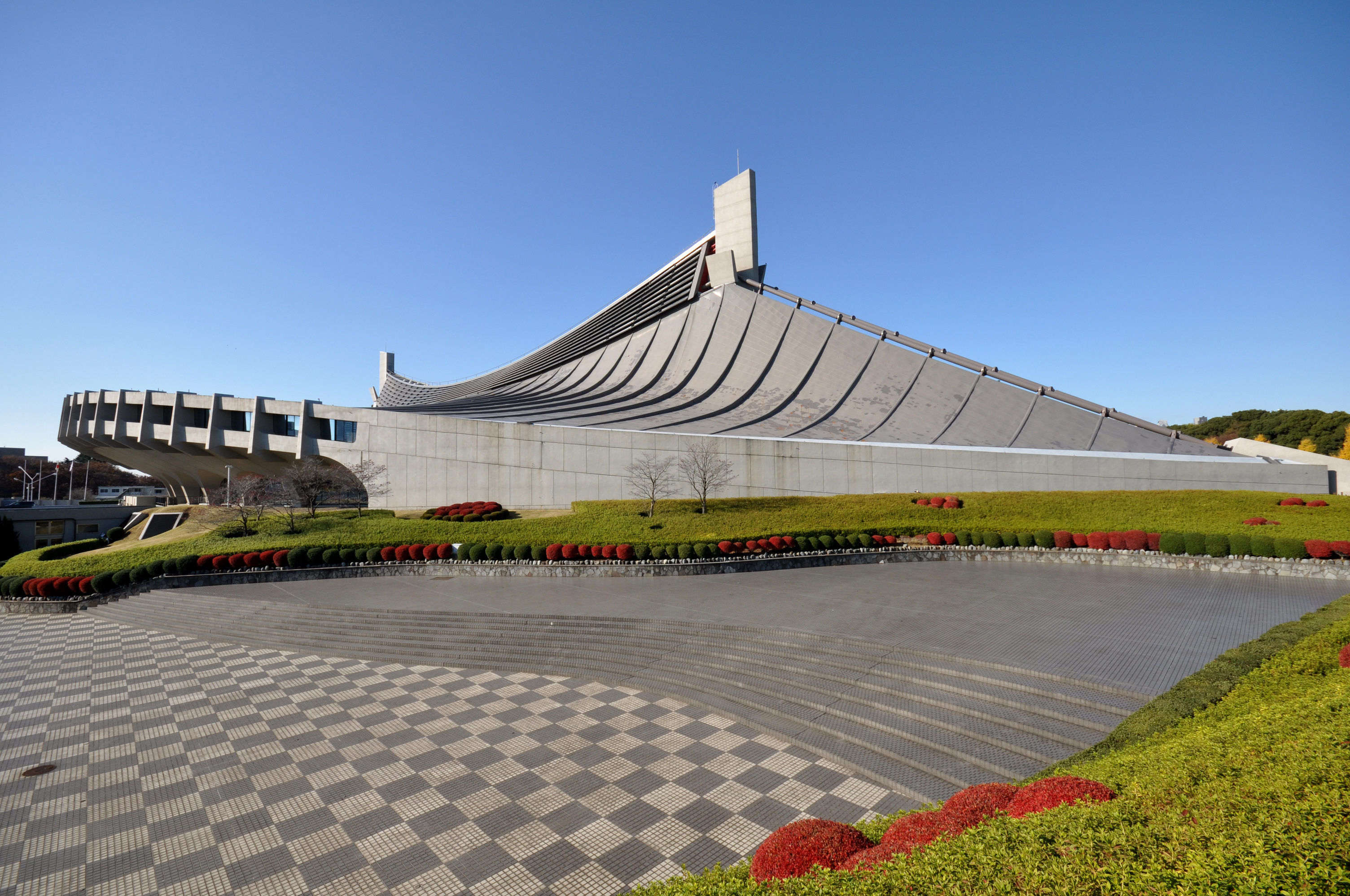 Yoyogi National Gymnasium, Tokyo. Architect:Kenzo Tange